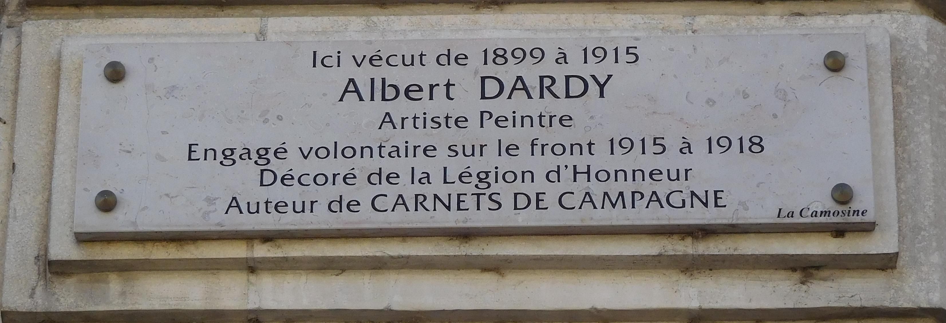 Plaque commemorating Albert Dardy, in Cosne-Cours-sur-Loire, France.